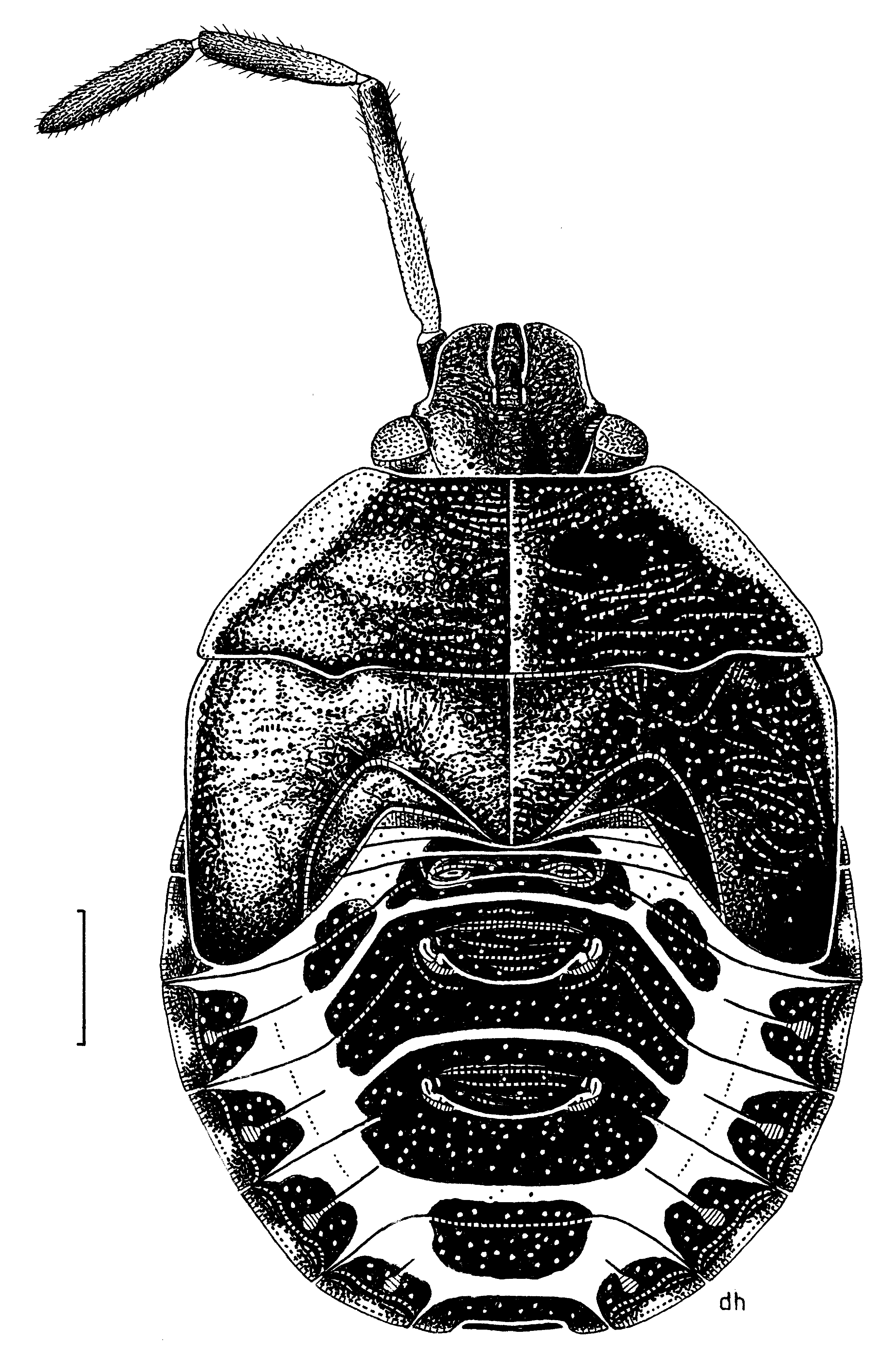 (Hemiptera: Pentatomidae) Cermatulus nasalis, last instar illustrated by Des Helmore.